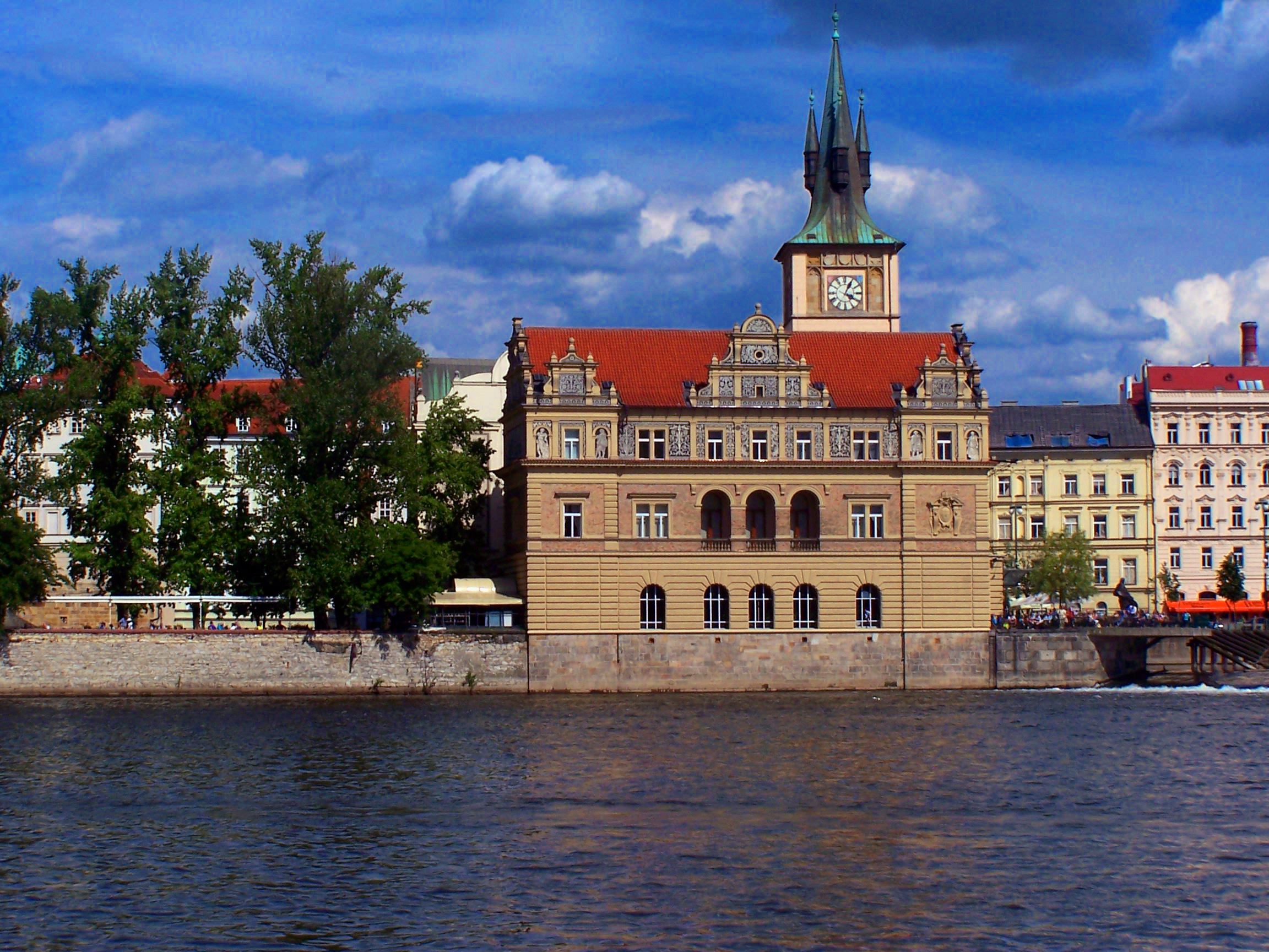 Praha - Vltava - View East towards the Smetana Museum